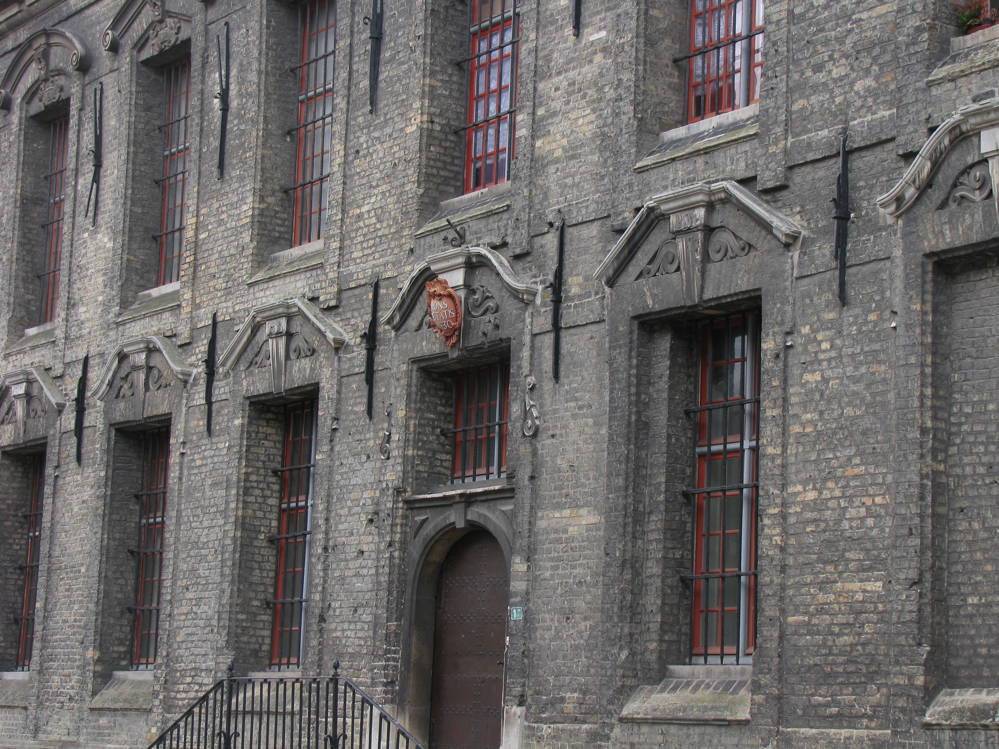 Mons Pietatis, Bergues